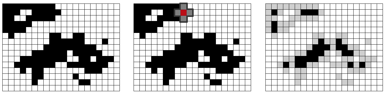 Example of morphological erosion on binary picture.